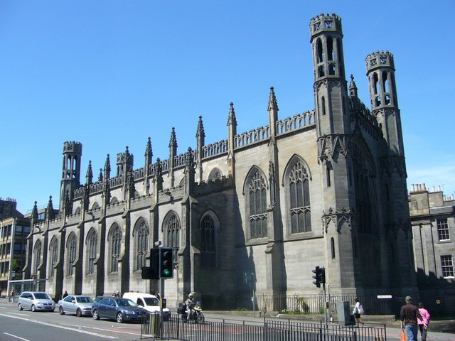 St Paul's and St George's, York Place Originally St Paul's Episcopal Church, designed by Archibald Elliot and built in 1818 for the use of the congregation from the Cowgate.